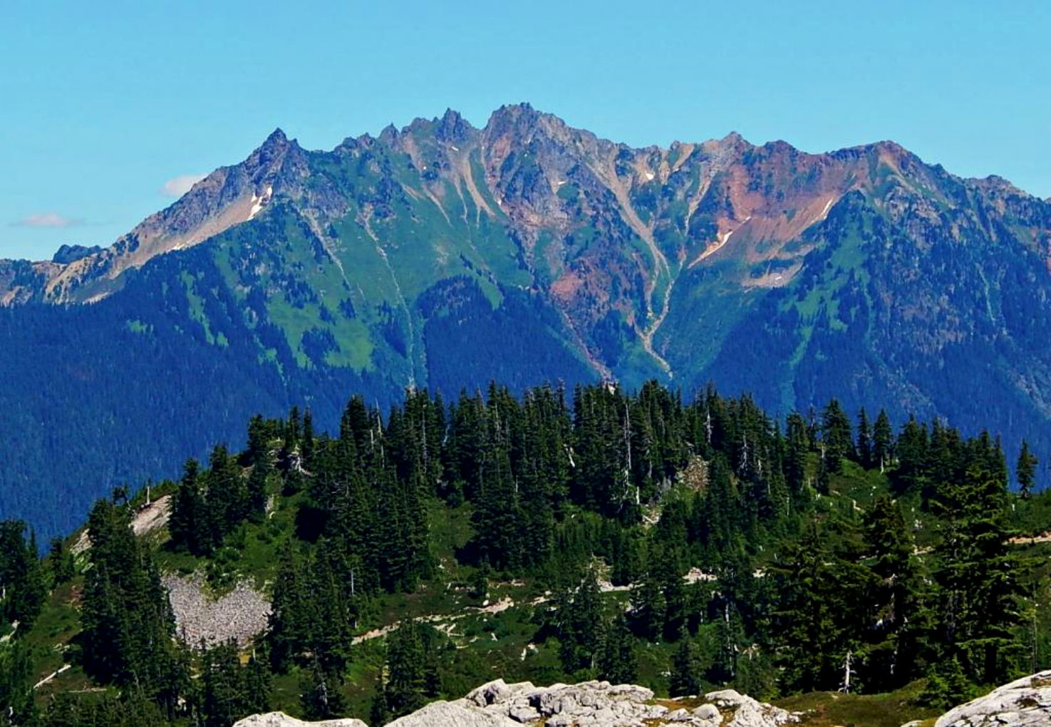 Mount Sefrit seen from Artist Point at the end of Mount Baker Highway.